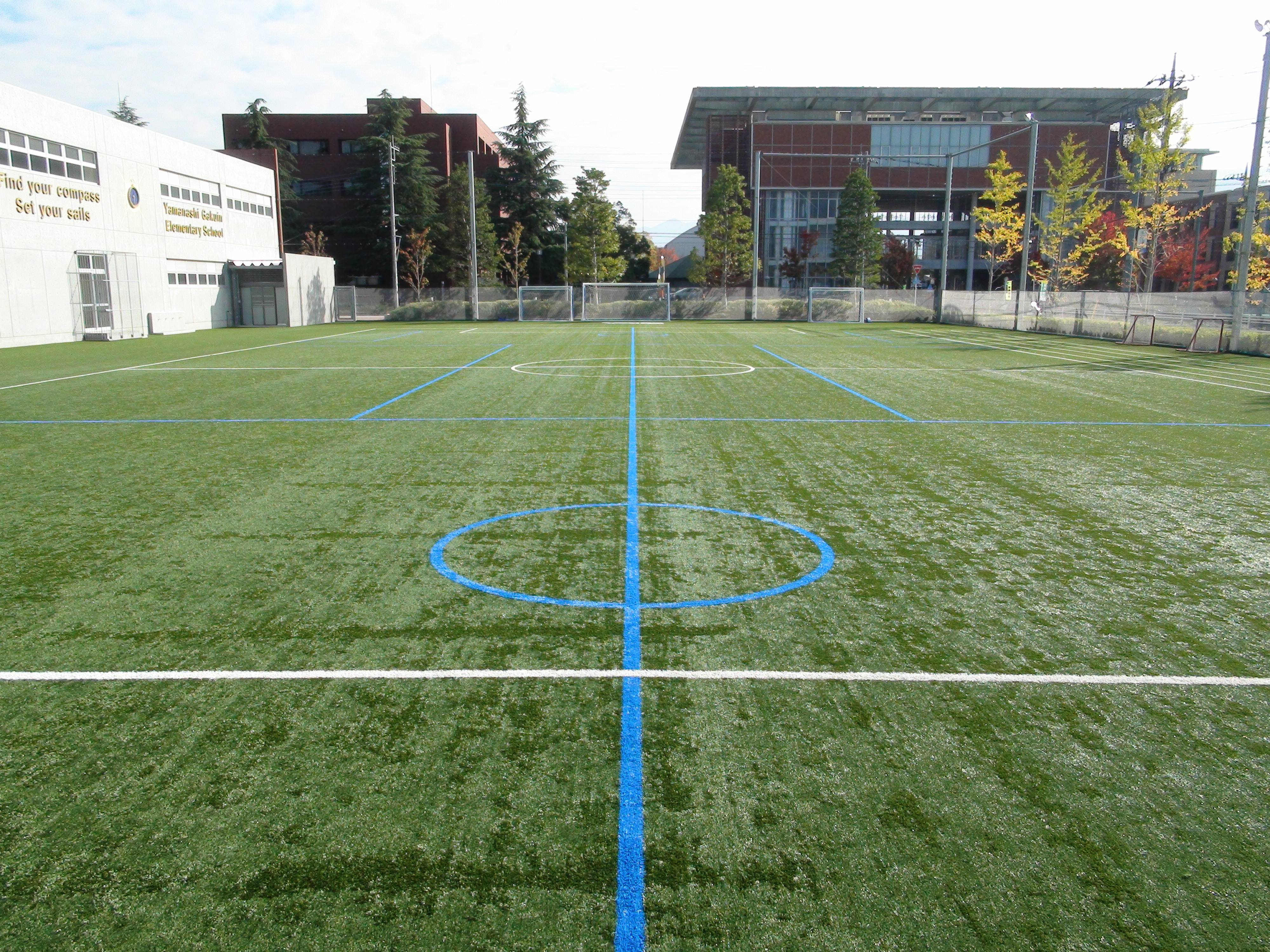 Yamanashi Gakuin Elementary School October playground（Because it was a school festival, I can photograph it after a security check）